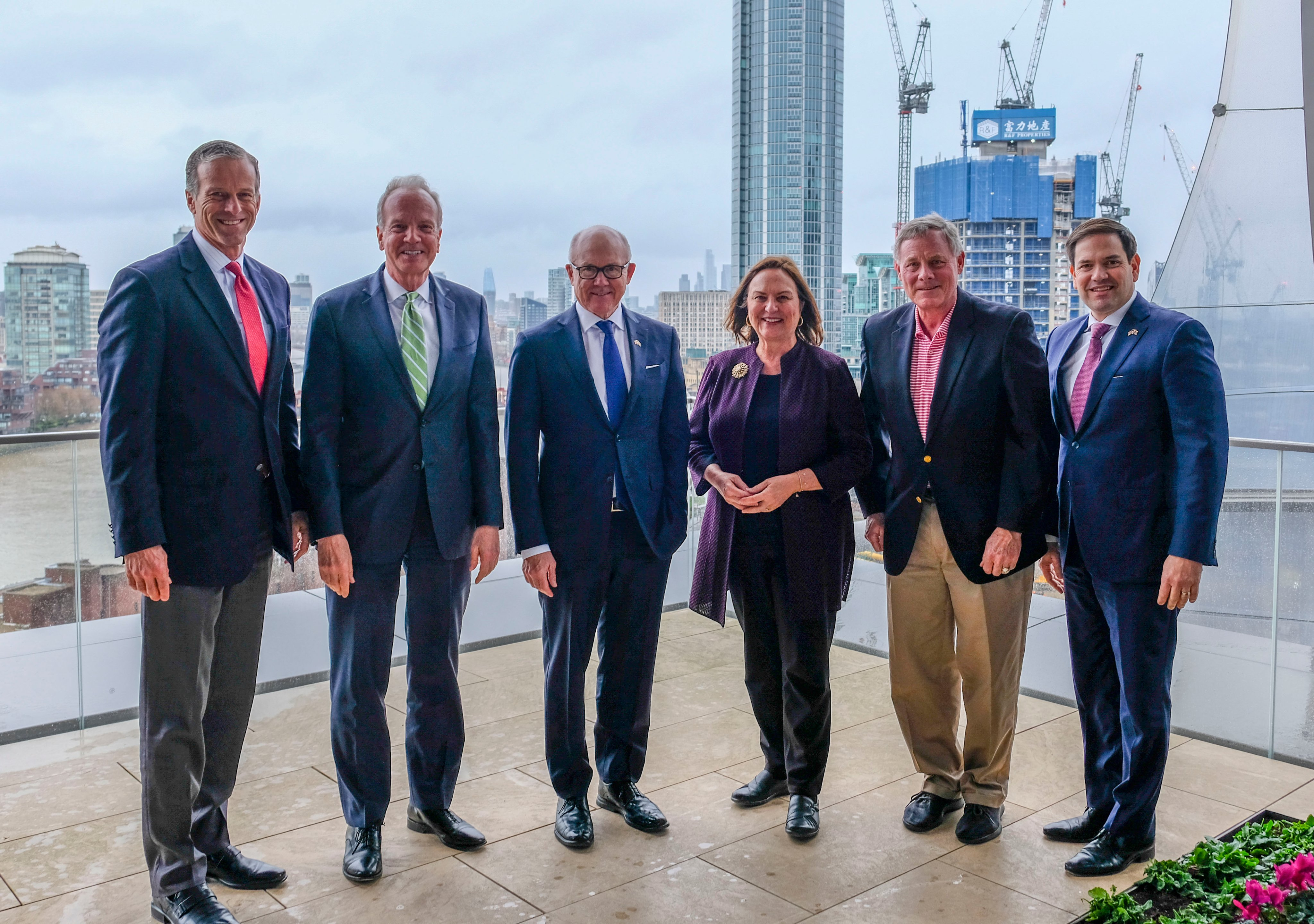 Good to host Senator @JerryMoran, @SenJohnThune, @SenatorBurr, @SenRubioPress & Senator Fisher in London yesterday - here for important talks with our UK allies on the #SpecialRelationship and a future Flag of United States-Flag of United Kingdom free trade agreement.